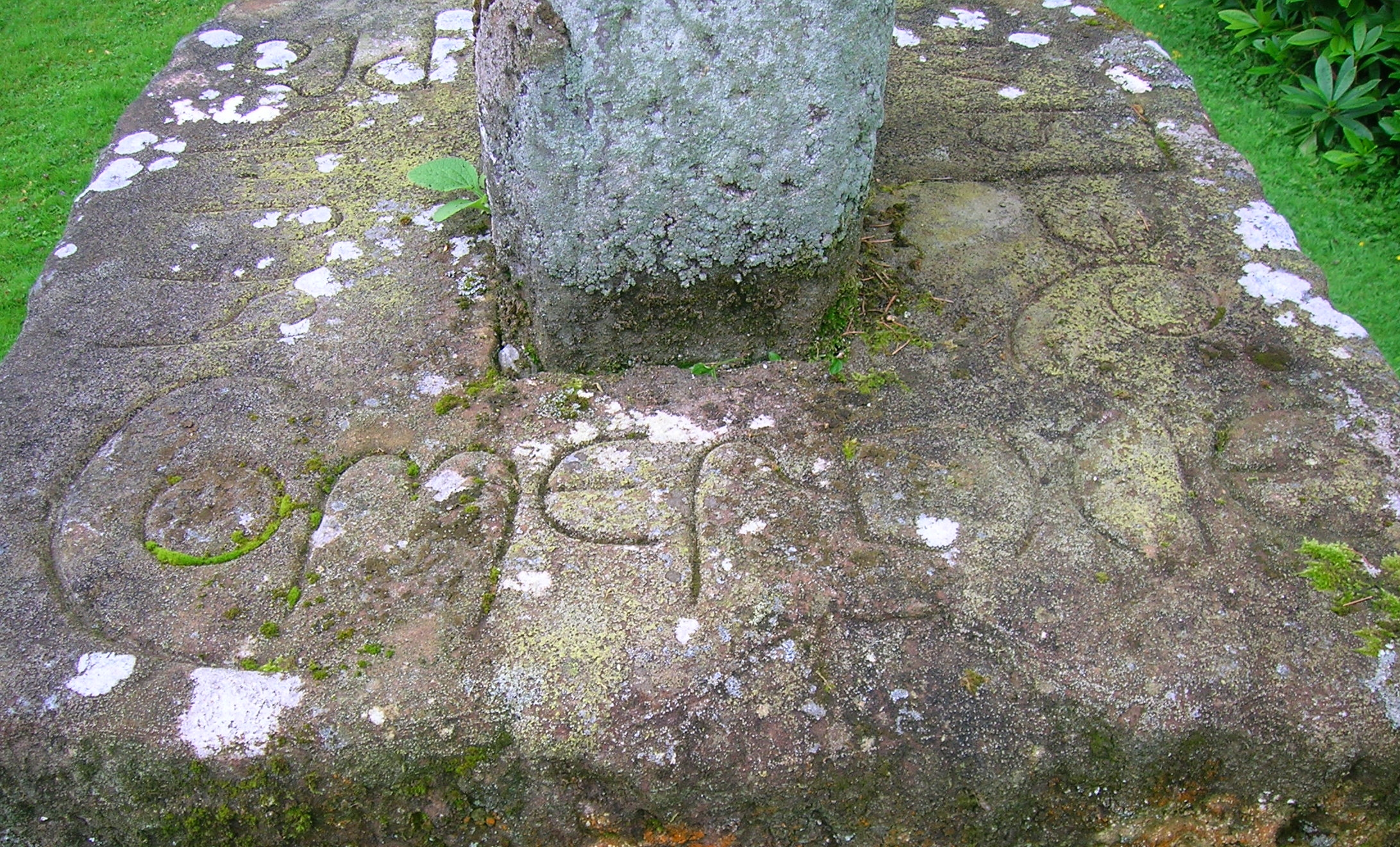 Laugh Moor Burial Stone inscription - Ora Pro Anima Comerchie De Laugh. Friars' Carse, Auldgirth, Scotland